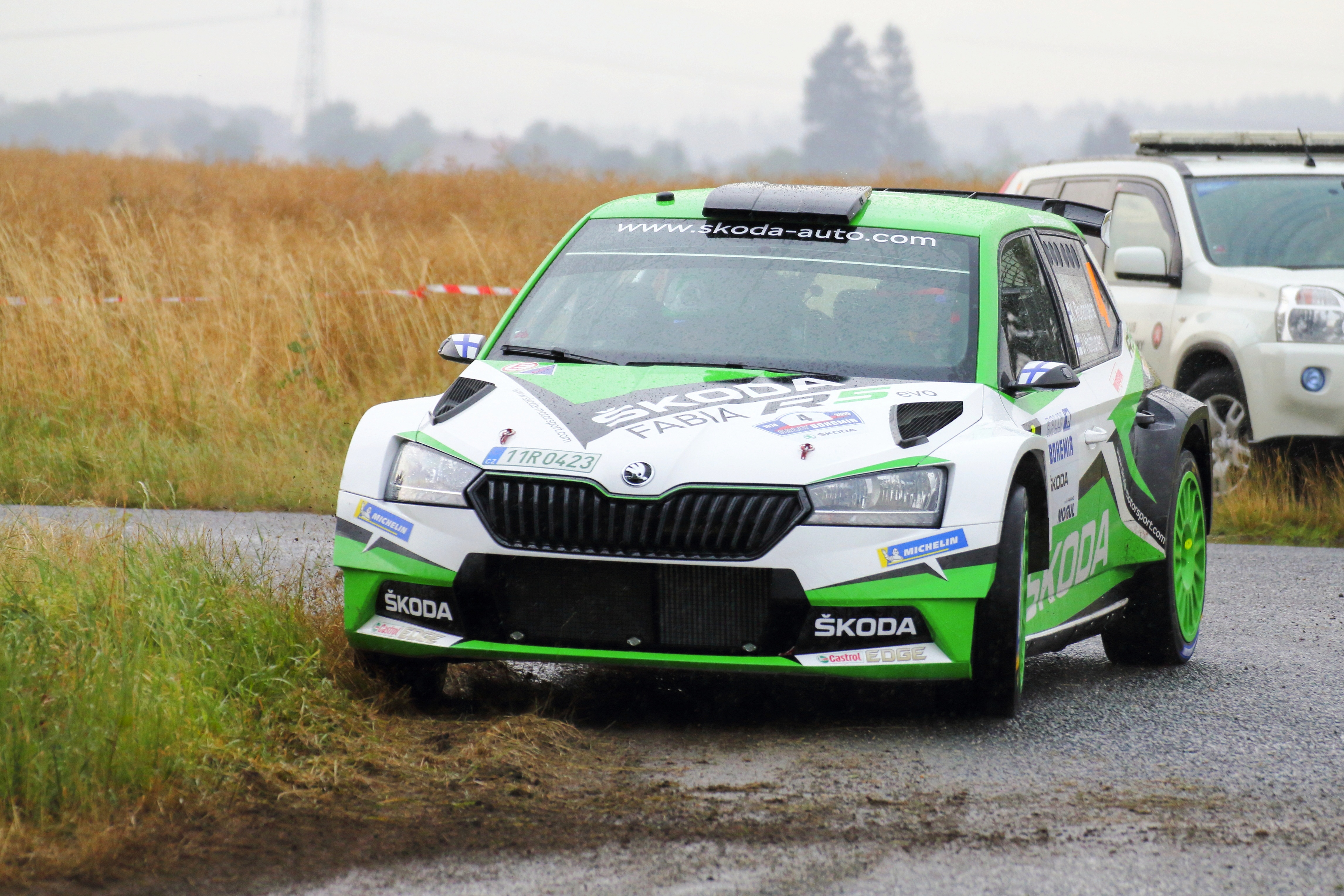 Kalle Rovanperä / Jonne Halttunen, Škoda Fabia R5 evo, 2019 Rally Bohemia